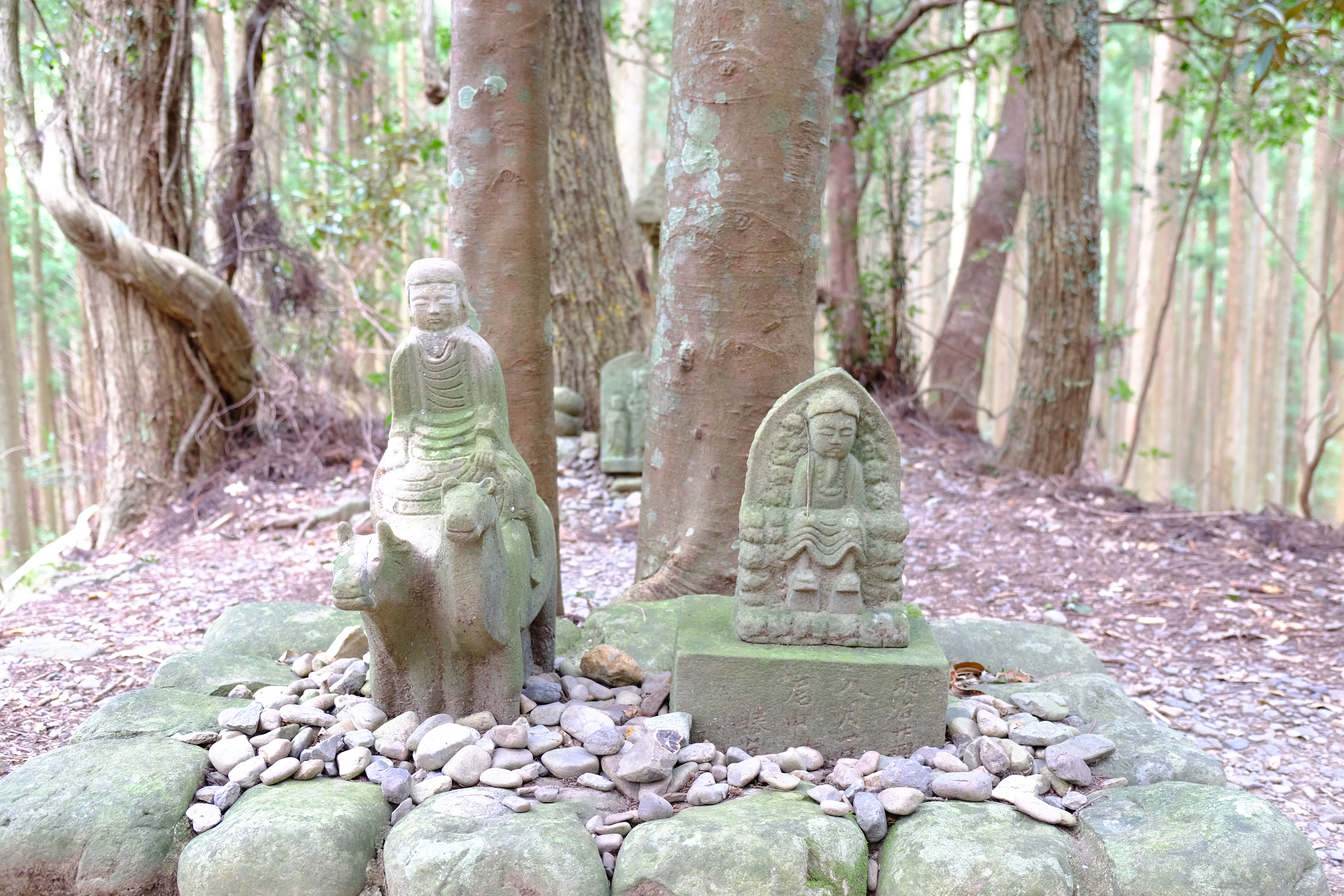 Kumano-Kodo, Nakahechi, Gyubadoji.